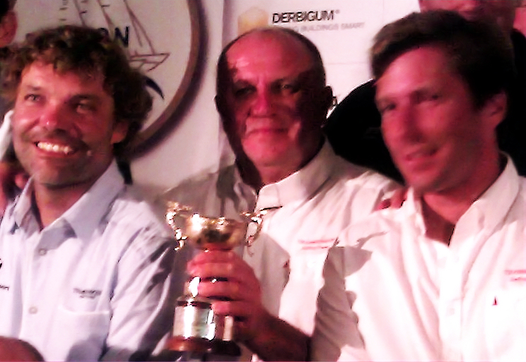 The Winners of the 2011 Dragon Gold Cup: Marcus Wieser, Sergey Pugachef and Mattias Paschen with the Gold Cup.